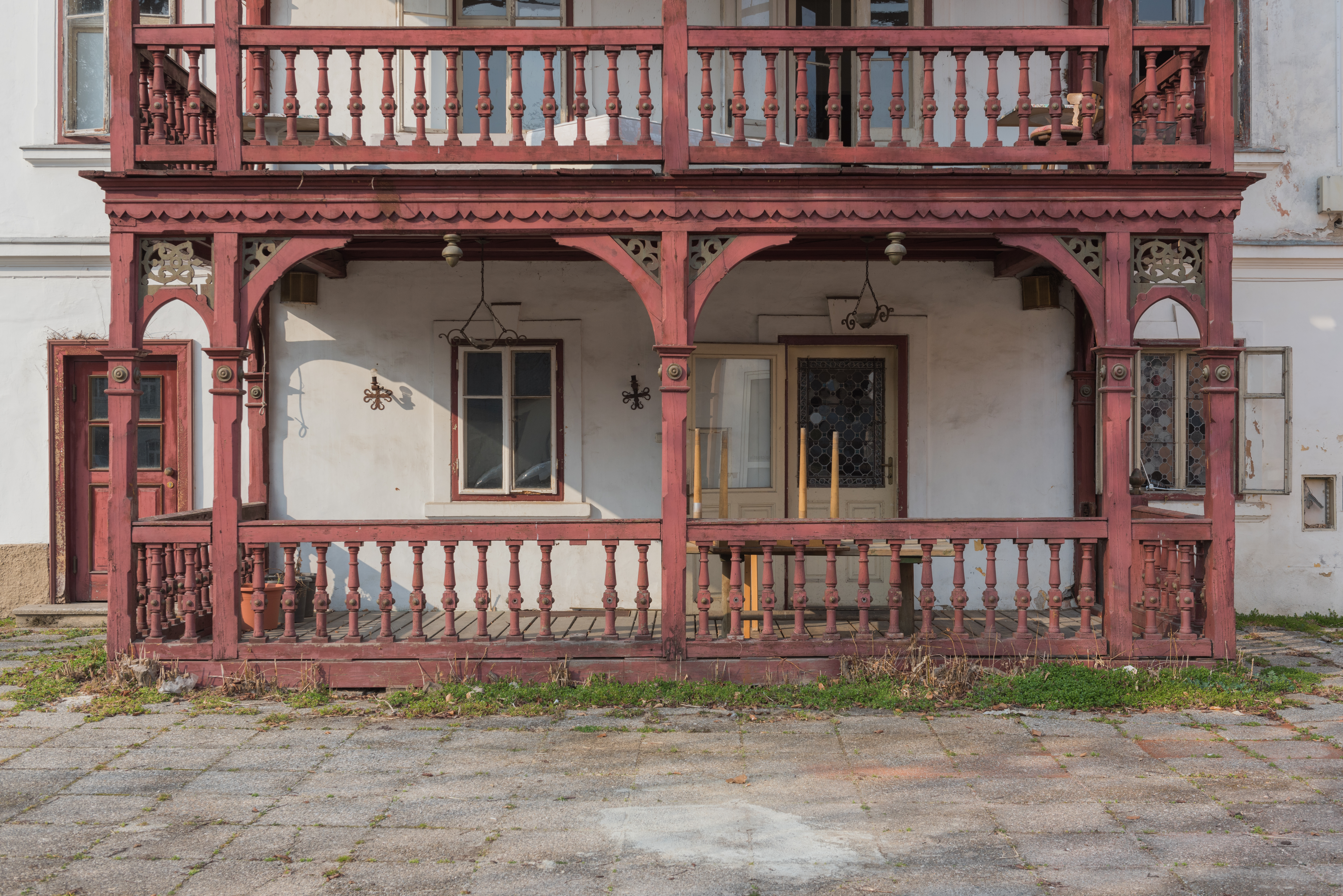 Veranda on the south side of Werzer´s former guesthouse "Weisses Roessl", nowadays "Johannes Brahms Museum", Hauptstrasse #207, municipality Poertschach on the Lake Woerth, district Klagenfurt Land, Carinthia, Austria, EU